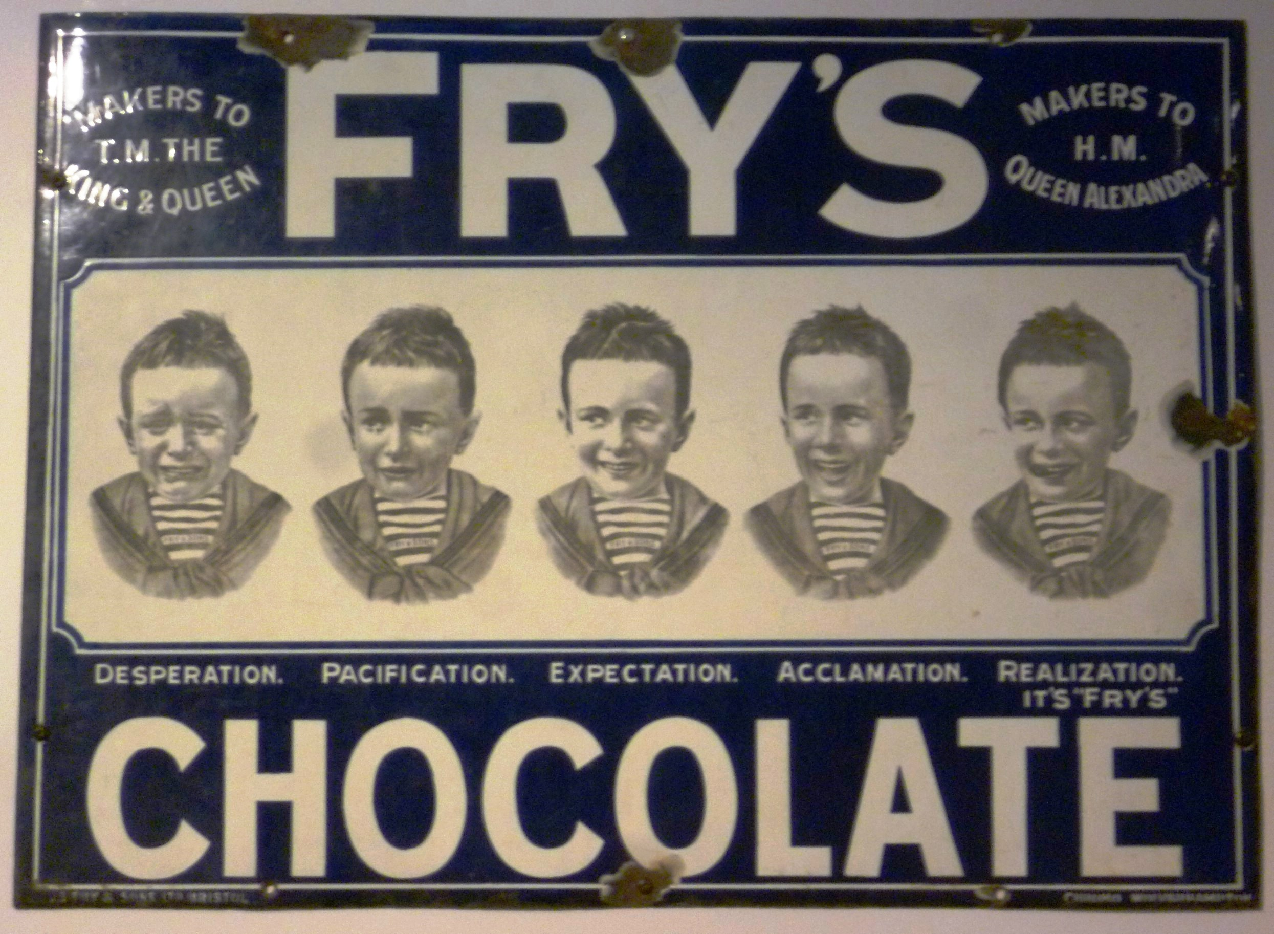 Fry's Chocolate enamel advertising sign. The reference to Queen Alexandra indicates a date before her death in 1925. Displayed in the Kirkcaldy Museum and Art Gallery.